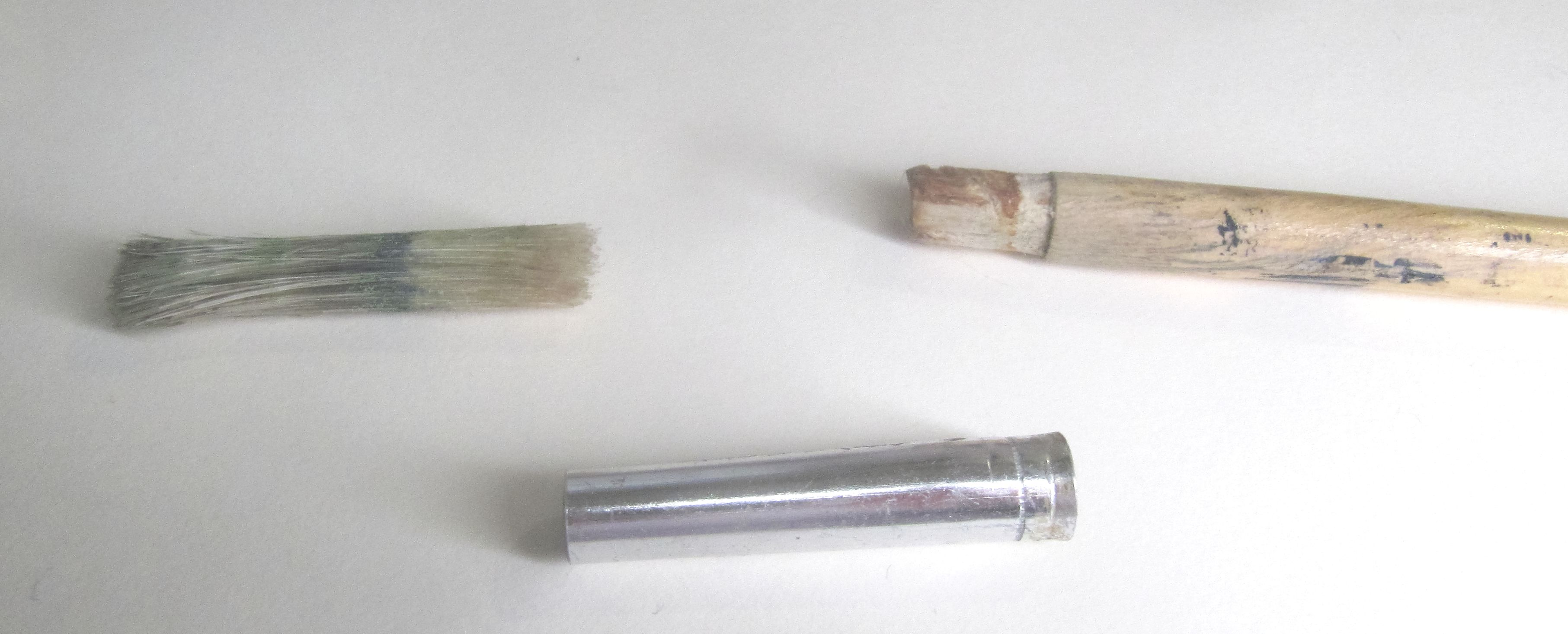 cheap pork hair paint brush éléments.